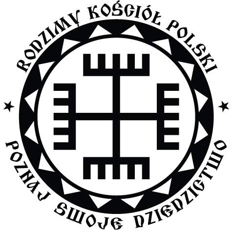 Logo of the Native Polish Church (Rodzimy Kościół Polski), a Rodnover association in Poland.